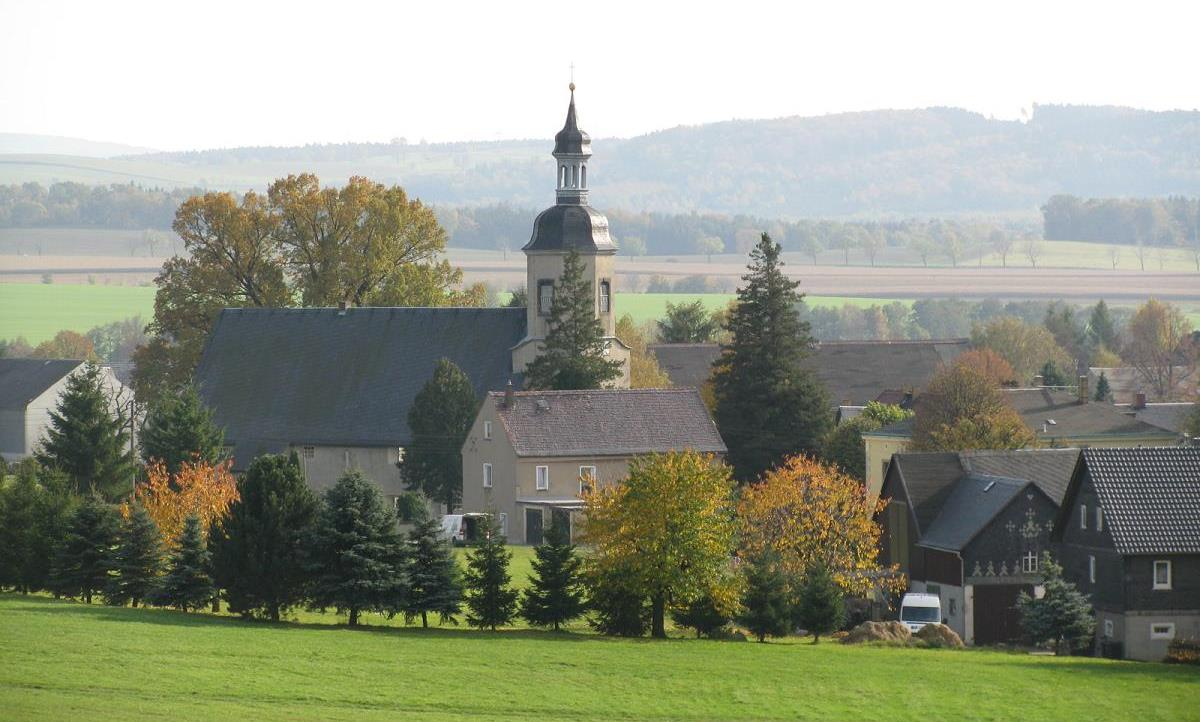 Church of Frankenthal